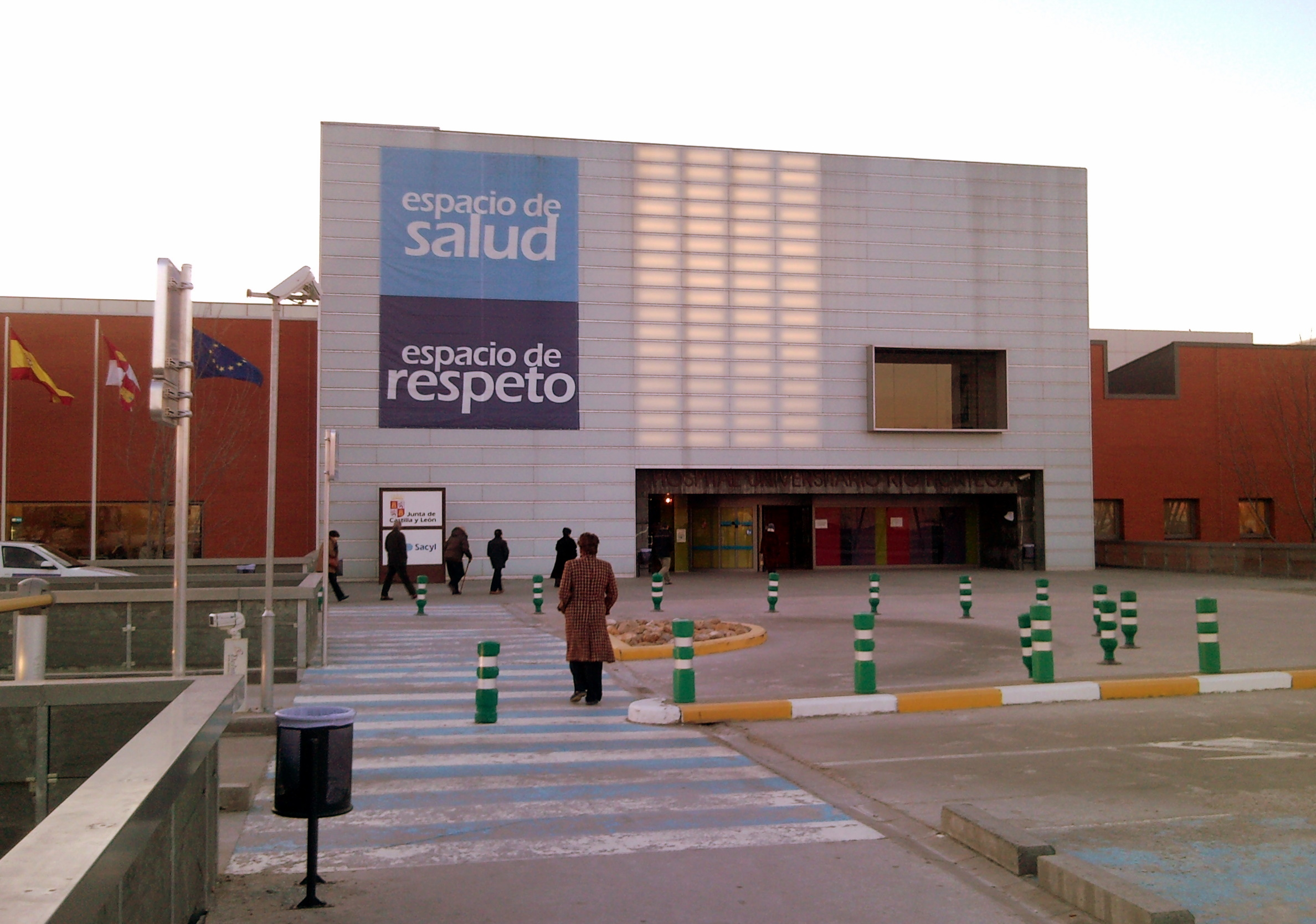 Main entrance of the Hospital Río Hortega of Valladolid, Spain.